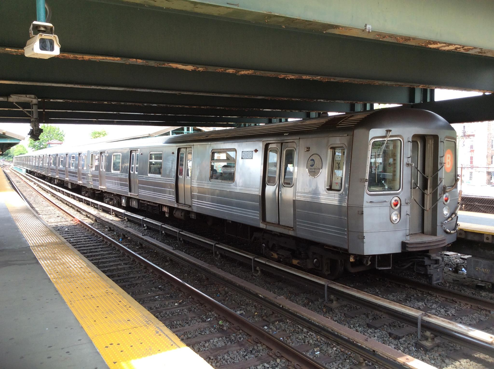 Northbound R68A B train at Kings Hwy.